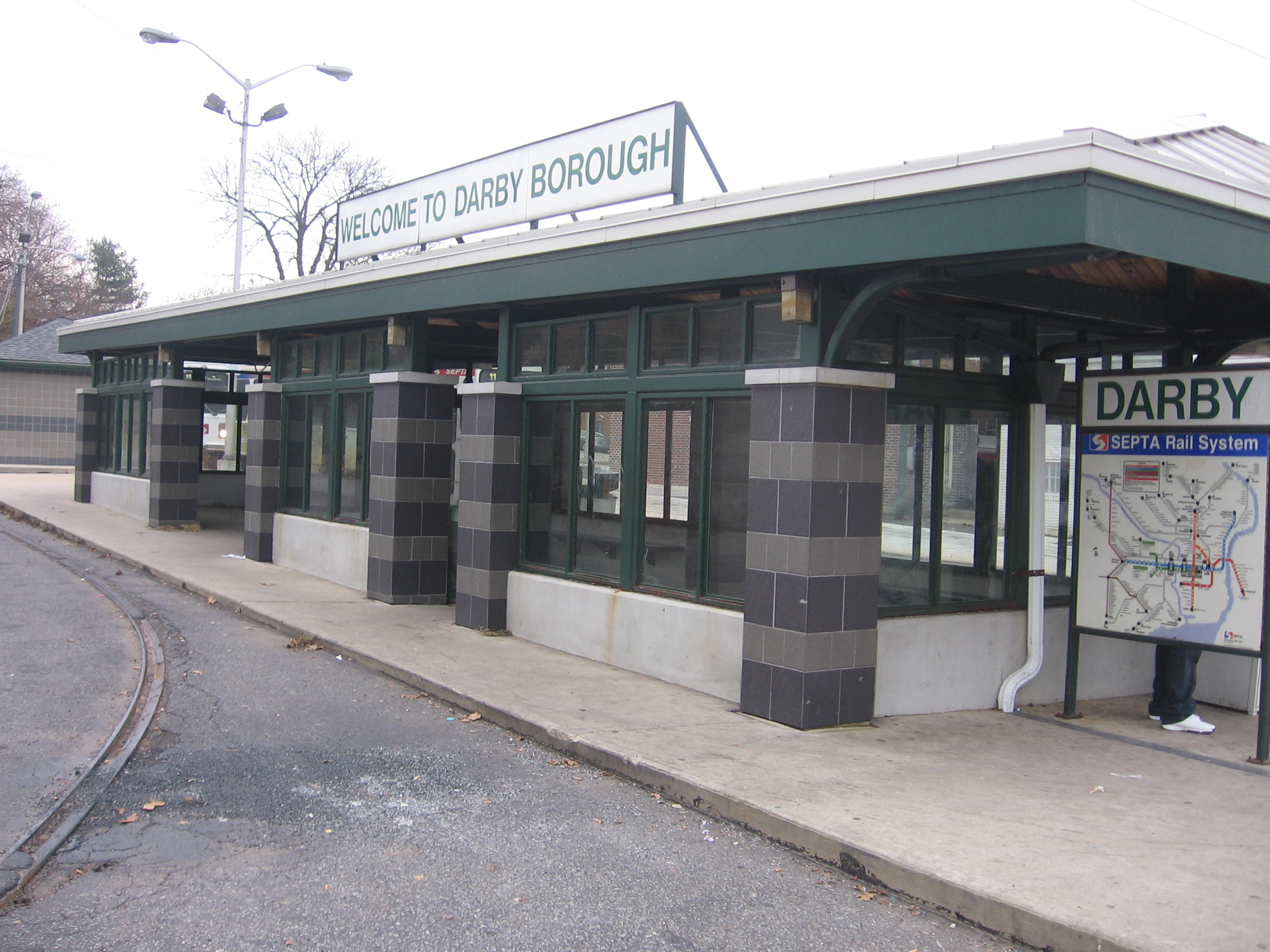 Darby Transportation Center in December 2007